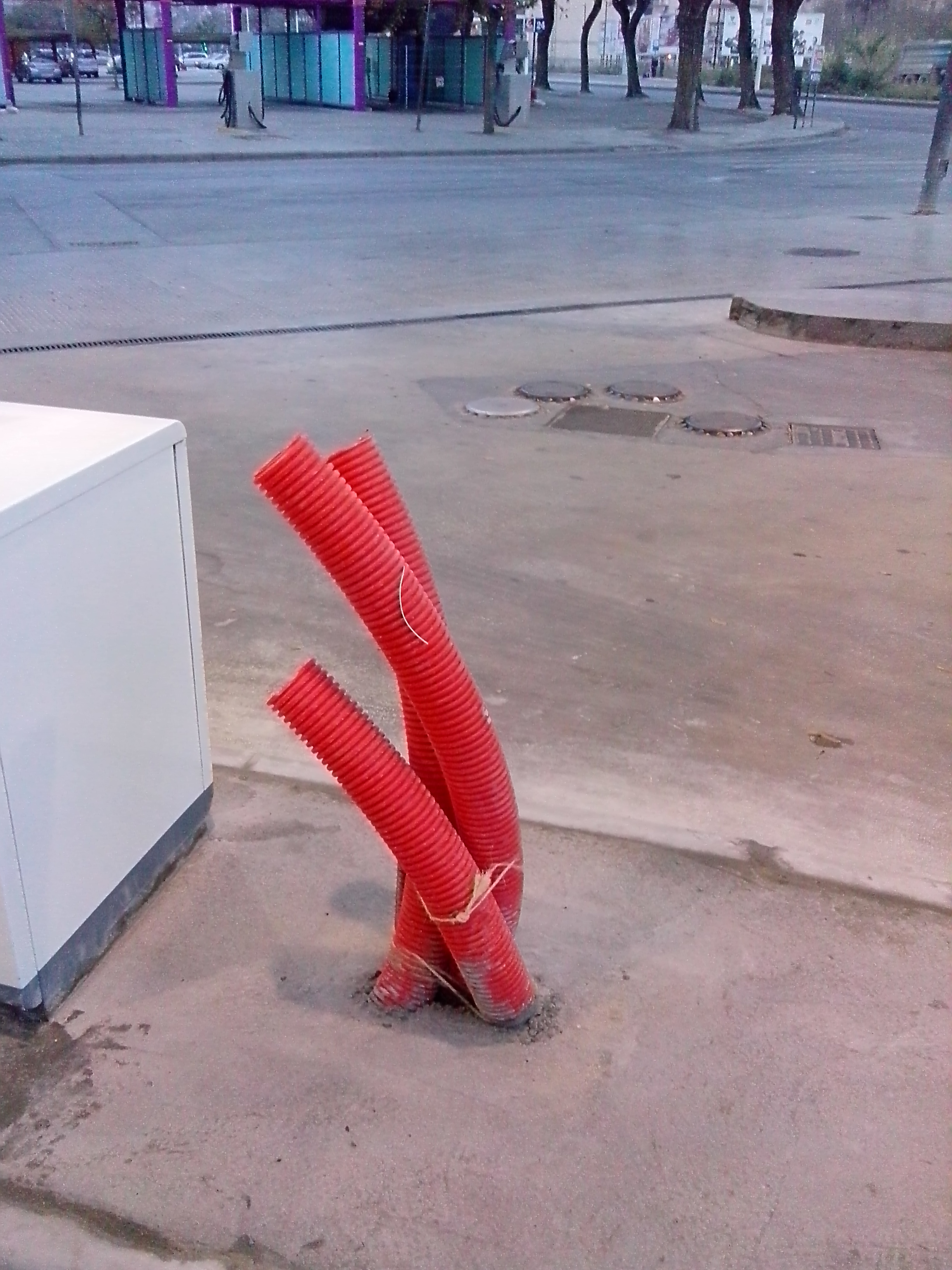 Corrugated tubes